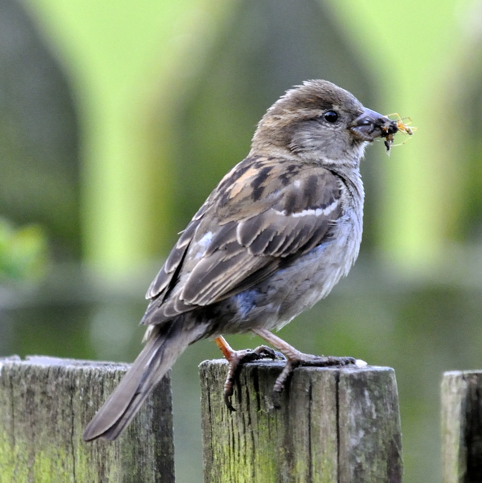 A female House Sparrow eating an insect in Airmyn, East Riding of Yorkshire, England.